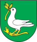 erb obce